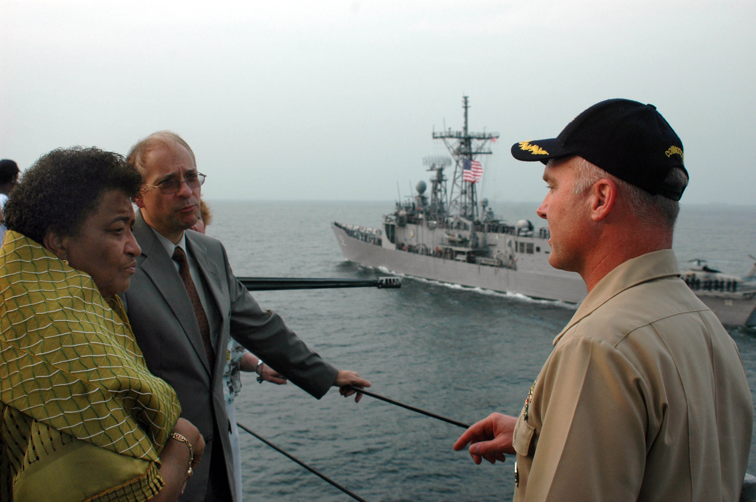 Atlantic Ocean (Jan. 17, 2006) The newly elected president of Liberia, Ellen Johnson-Sirleaf, tours the U.S. Navy’s Sixth Fleet command and control ship USS Mount Whitney (LCC 20) escorted by Commander, Task Force 65, Captain Tom Rowden, right, while the frigate USS Carr (FFG 52) moves alongside the ship. Making her first ever visit aboard a navy vessel, President Johnson-Sirleaf visited Mount Whitney the day after her inauguration to thank the crew for making the journey in support of her countries inaugural ceremonies. U. S. Navy photo by Journalist 1st Class Kurt Riggs (RELEASED)